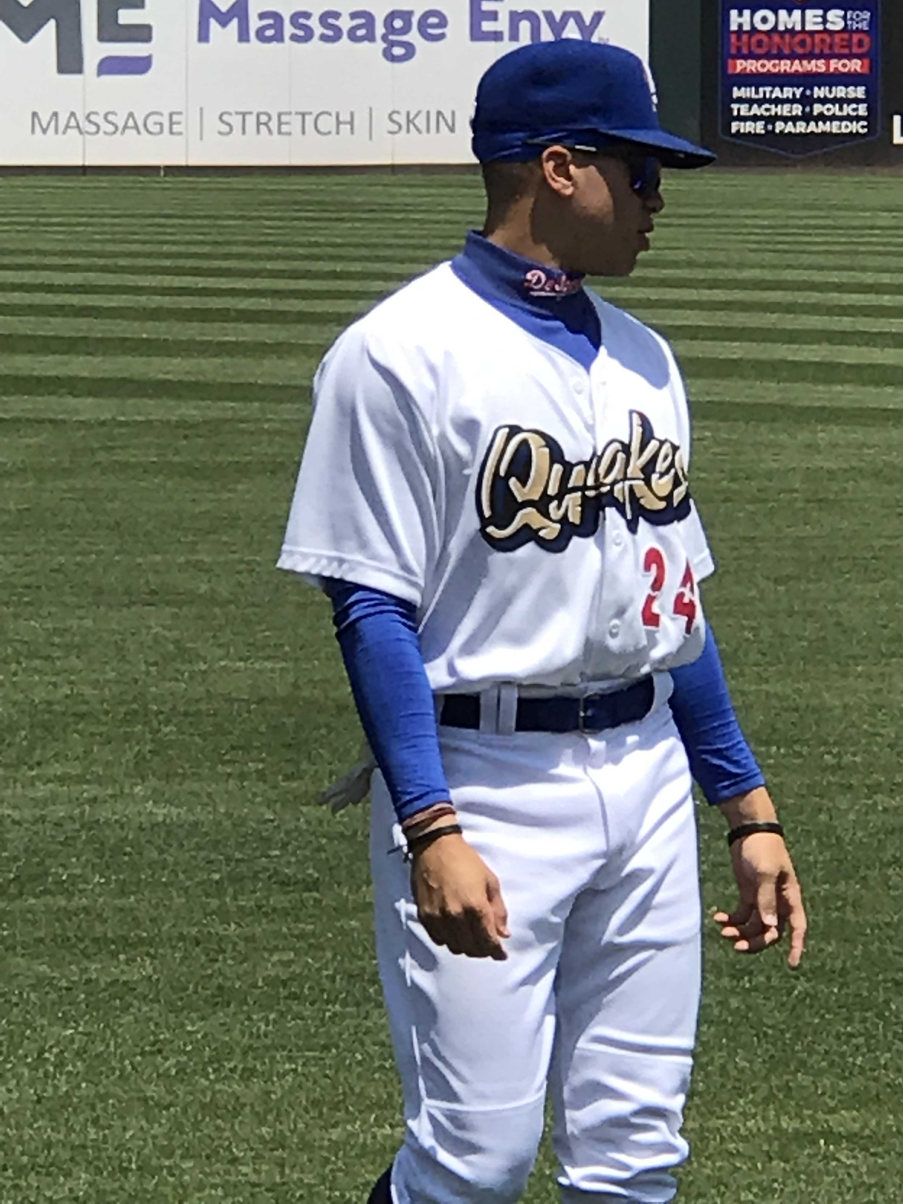 Outfielder Jeren Kendall warming up before a game with the minor league Rancho Cucamonga Quakes in 2019.